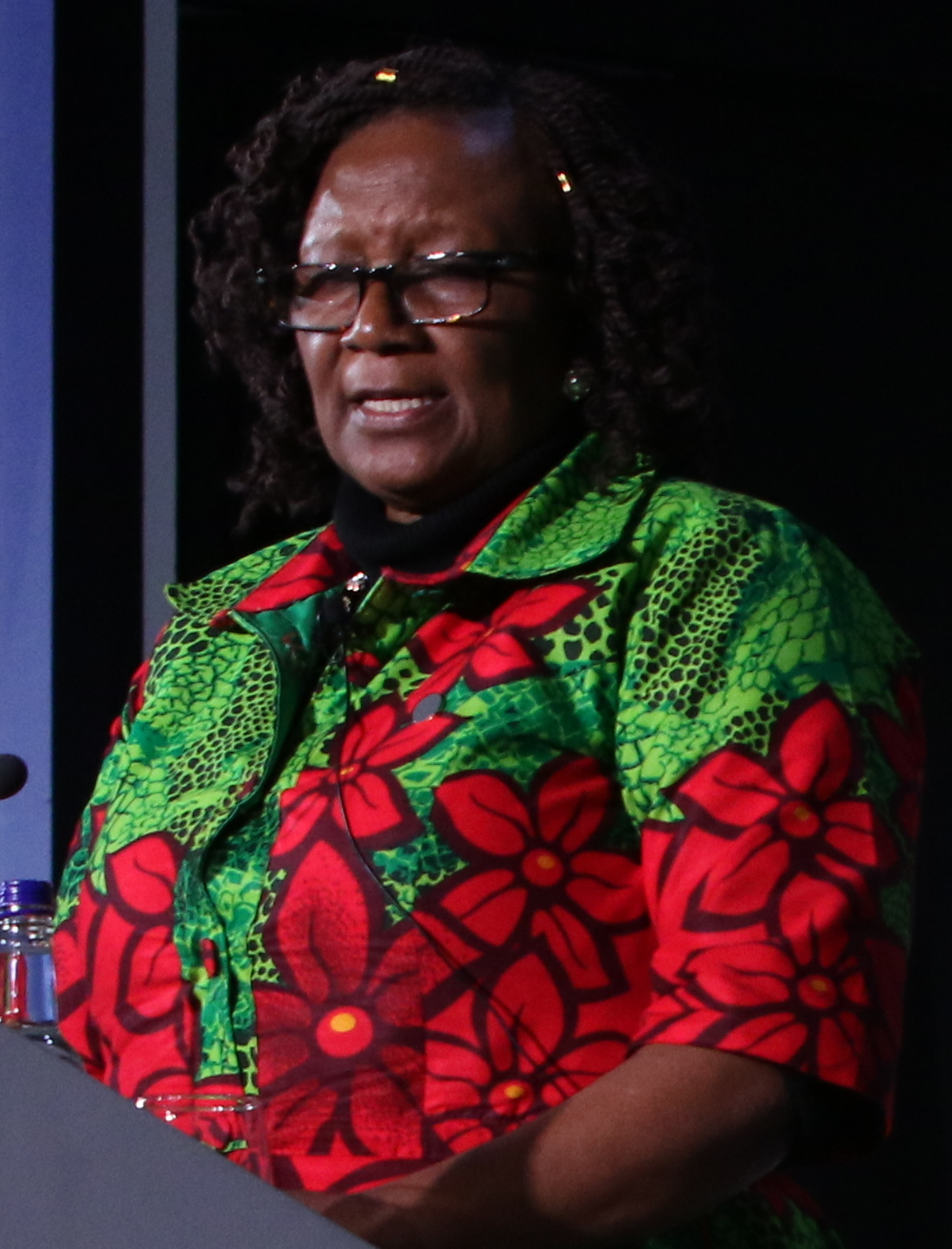 Honourable Priscah Mupfumira, Minister for Environment, Zimbabwe speaking at the Illegal Wildlife Trade Conference: London 2018, 12 October 2018.